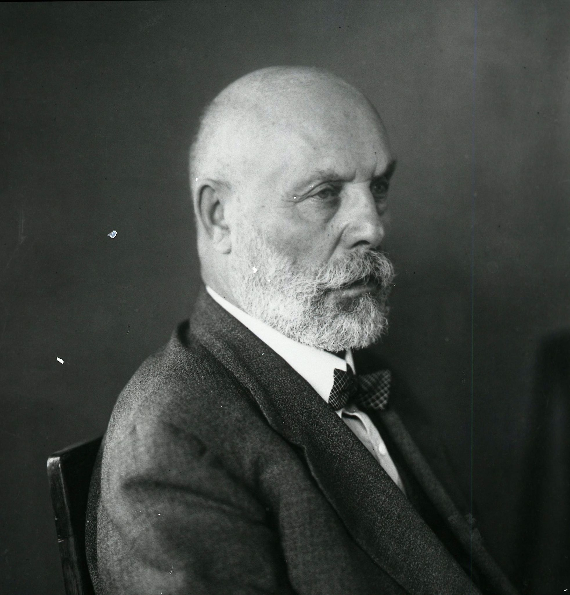 Menachem Ussishkin Zionist leader portrait.